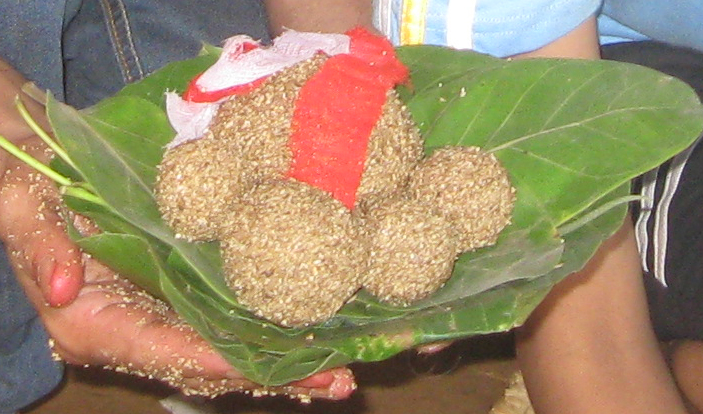 A kind of food item made specially in wedding and upanayana ceremony in Nepal.